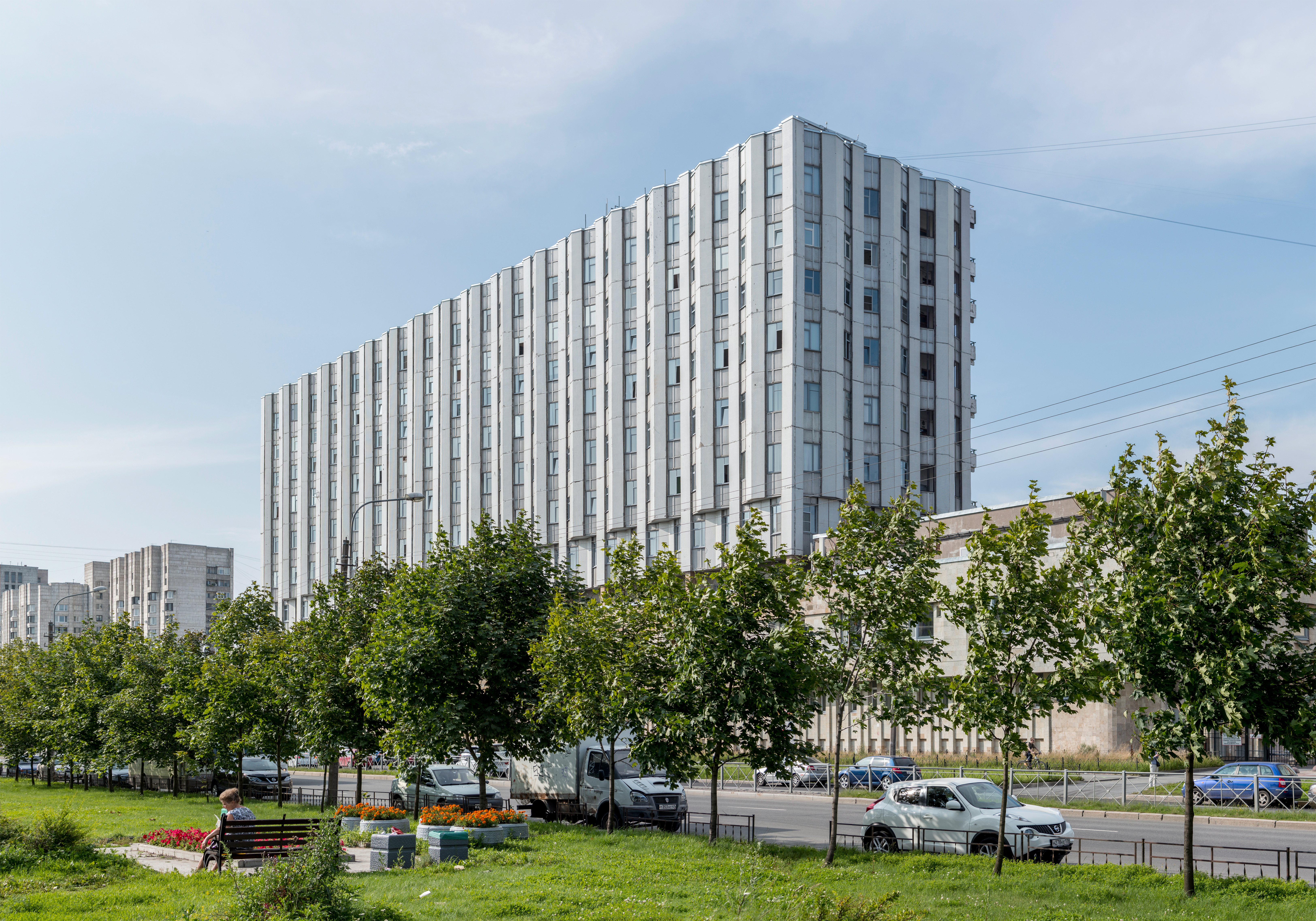 Metro Administration Building on Odoevskogo Street in Saint Petersburg